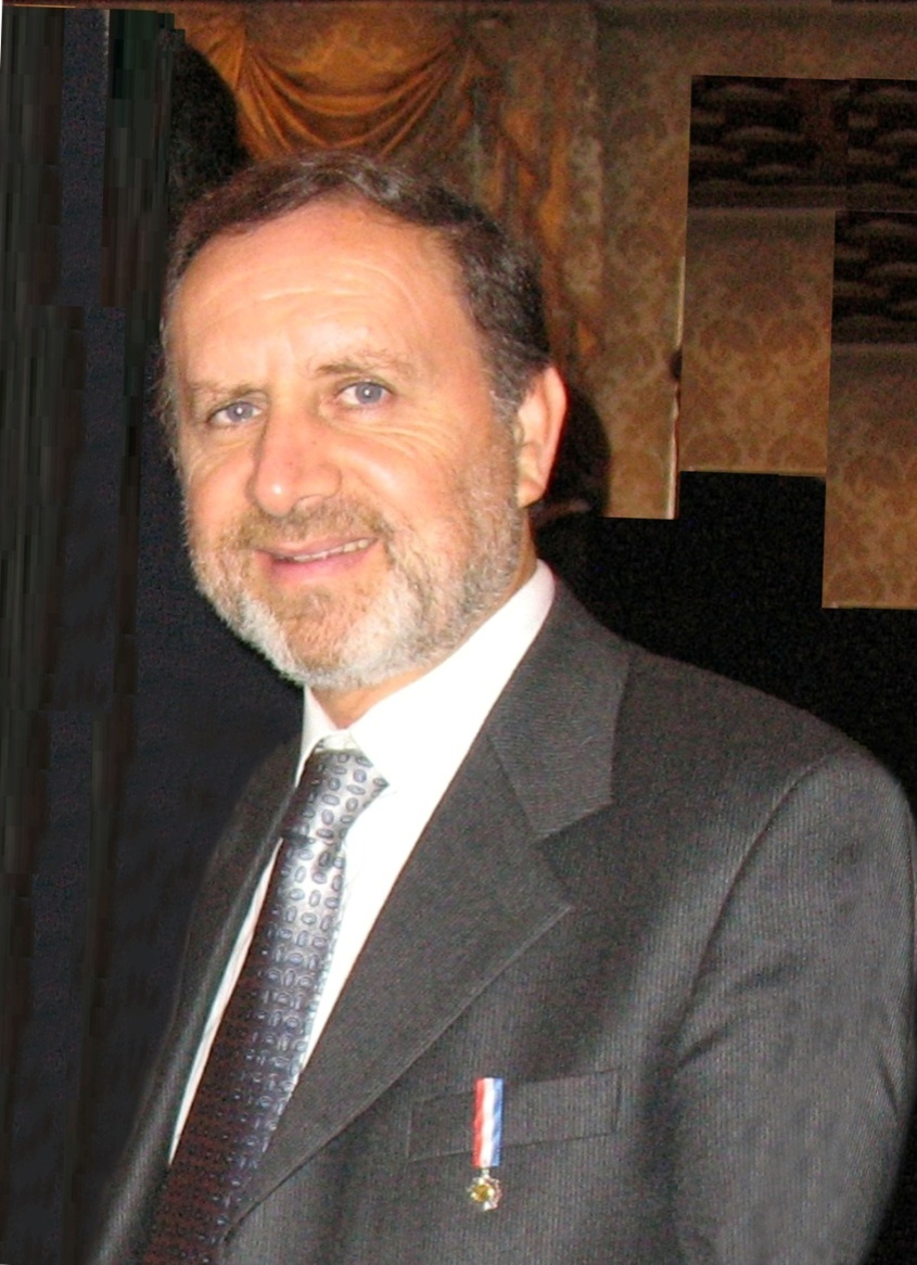 Carlo Spartaco Capogreco at the Embassy of Croatia in Rome, the 13th of November 2009